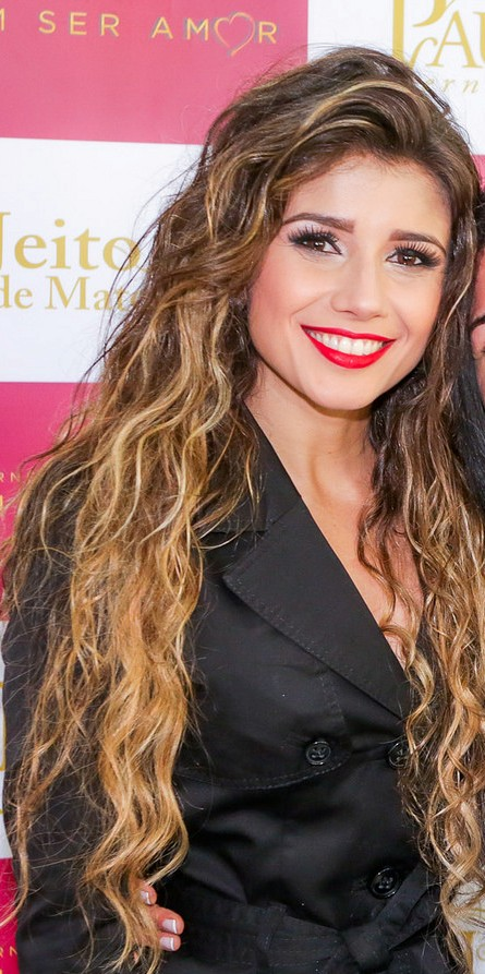 Photo by Paula Fernandes on Meet & Greet in Vivo Rio